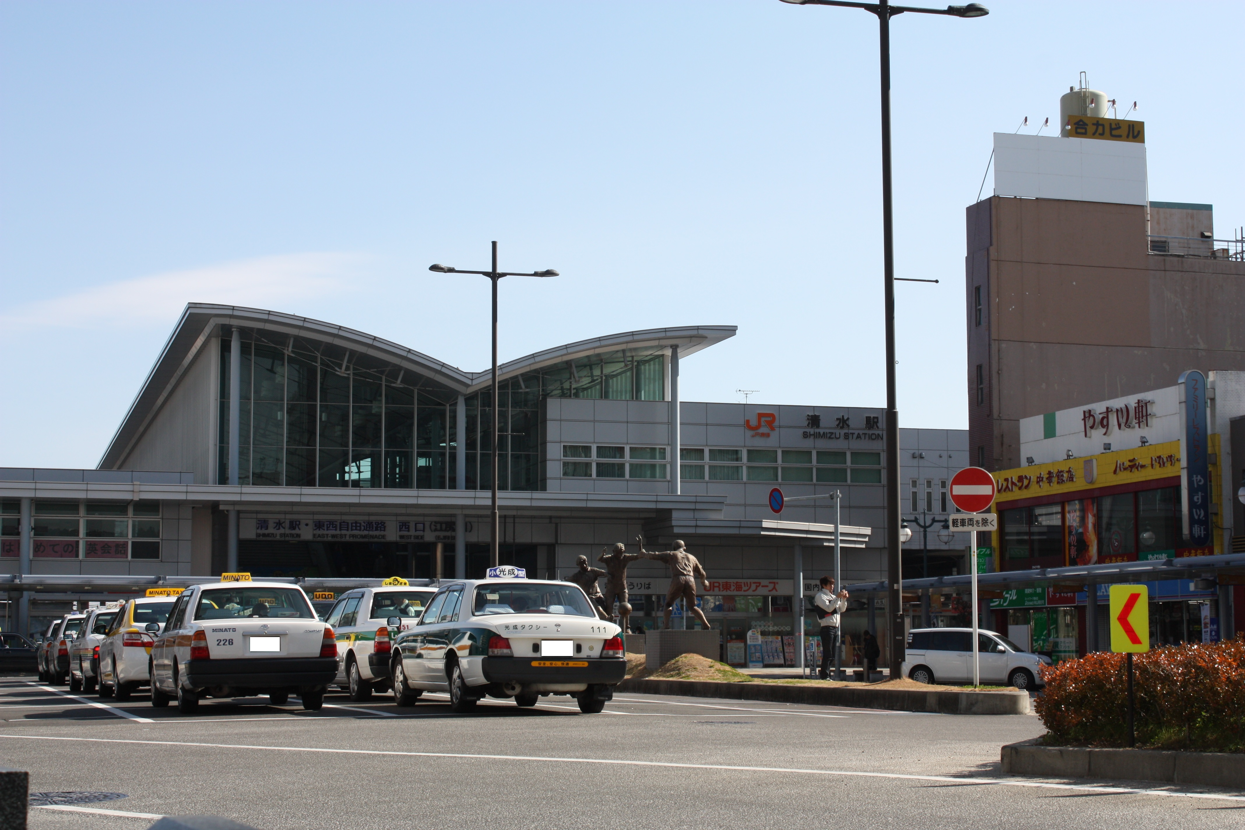 The west side of Shimizu Station